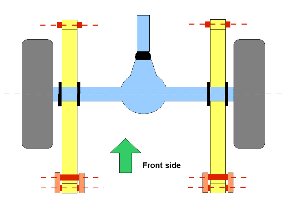 A schematic view of a Leaf rigid suspension.